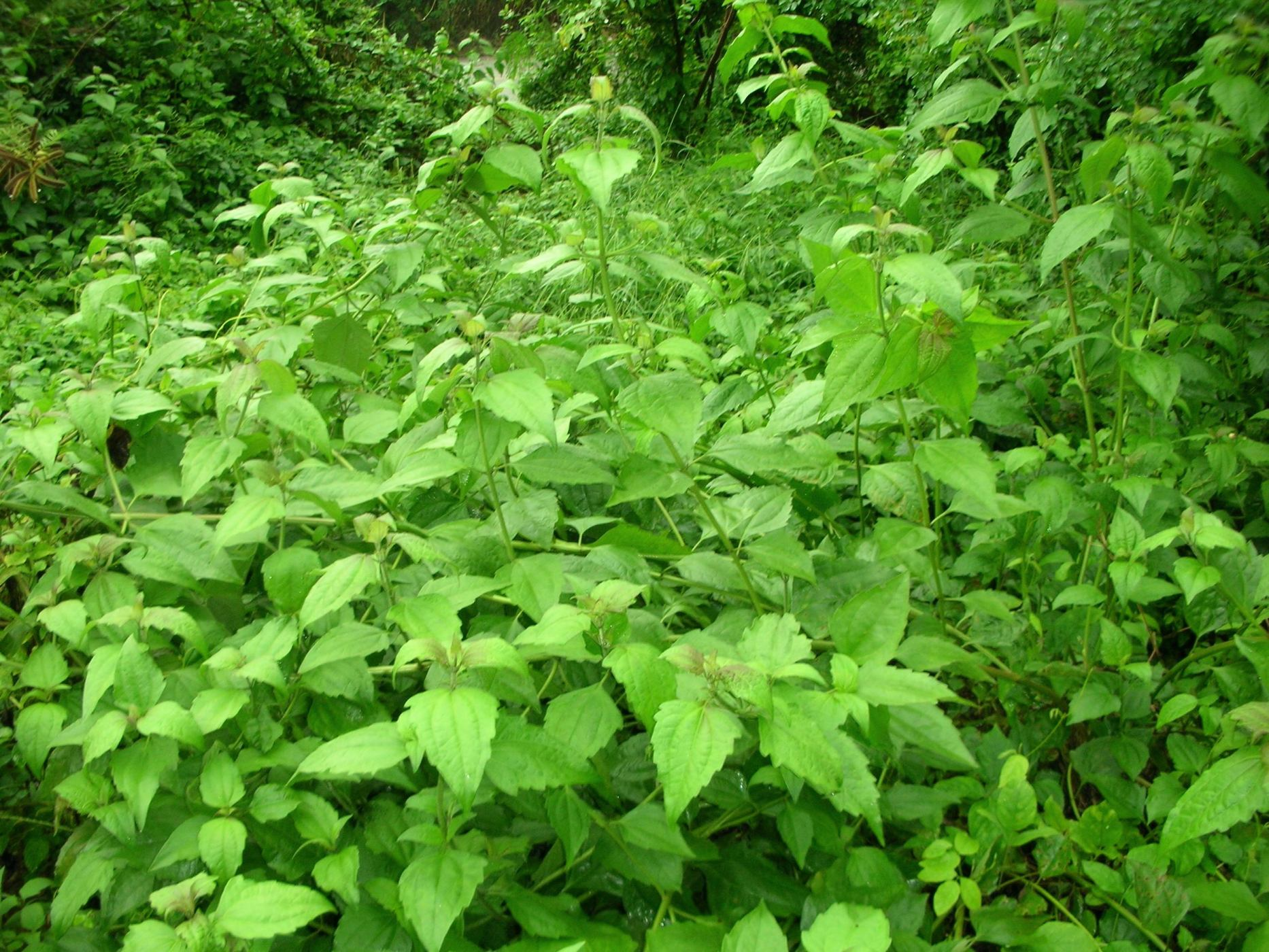 Melanthera biflora shrub. Ratchaburi Province. Thailand